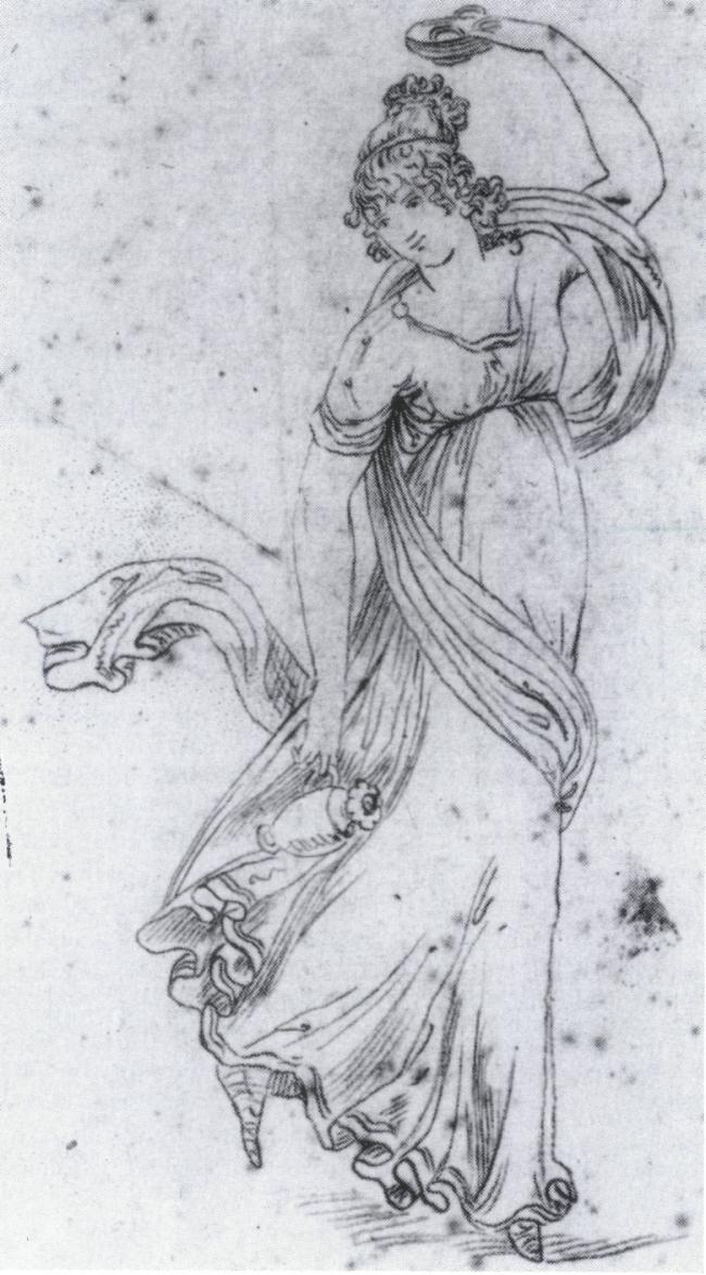 Drawing by Christoph Heinrich Kniep titled "Ida Brun i attitude", Bakkehusmuseet, Copenhagen. Ida Brun was an early 19th century singer and dancer who performed in salons.